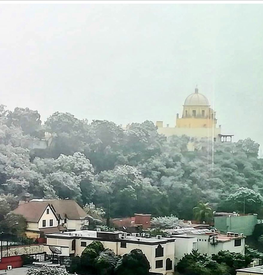 Museo del Obispado cubierto de nieve en sus alrededores durante la nevada del 2 de Enero del 2018. Autor: Néstor Alejandro Cantú González